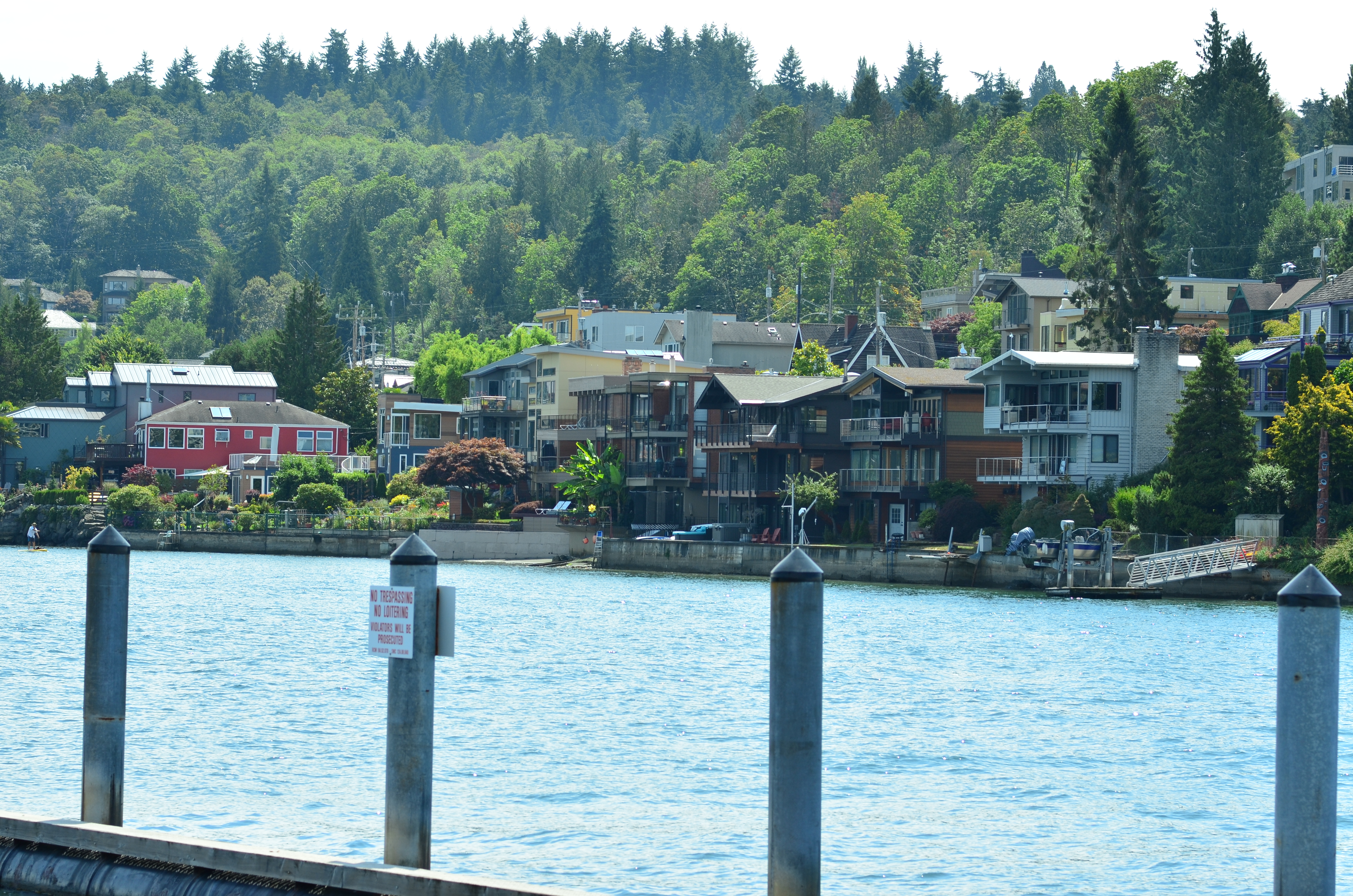 Looking south across Salmon Bay from the dock at Ray's Boathouse, Ballard, Seattle, Washington, U.S.